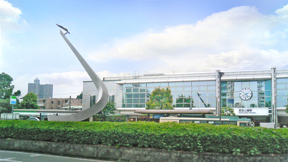 Kōkū-kōen Station East exit, Tokorozawa, Japan. The monument of a paper plane flying up into the sky is located in front of the station east exit rotary. The exterior of whole three-storied station building is designed to look like a "Henri Farman biplane", Farman III, which is officially the first powered aircraft in Japan, the clock, above the entrance, as its propeller, and was selected as 100 Train Stations in Kantō by the MLIT in 1998. In the background is the high-rise condominium "Forus Tower Tokorozawa" in Motomachi district, near Tokorozawa Station.